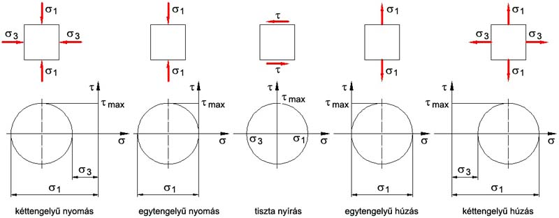 Deformation variations with Mohr rings